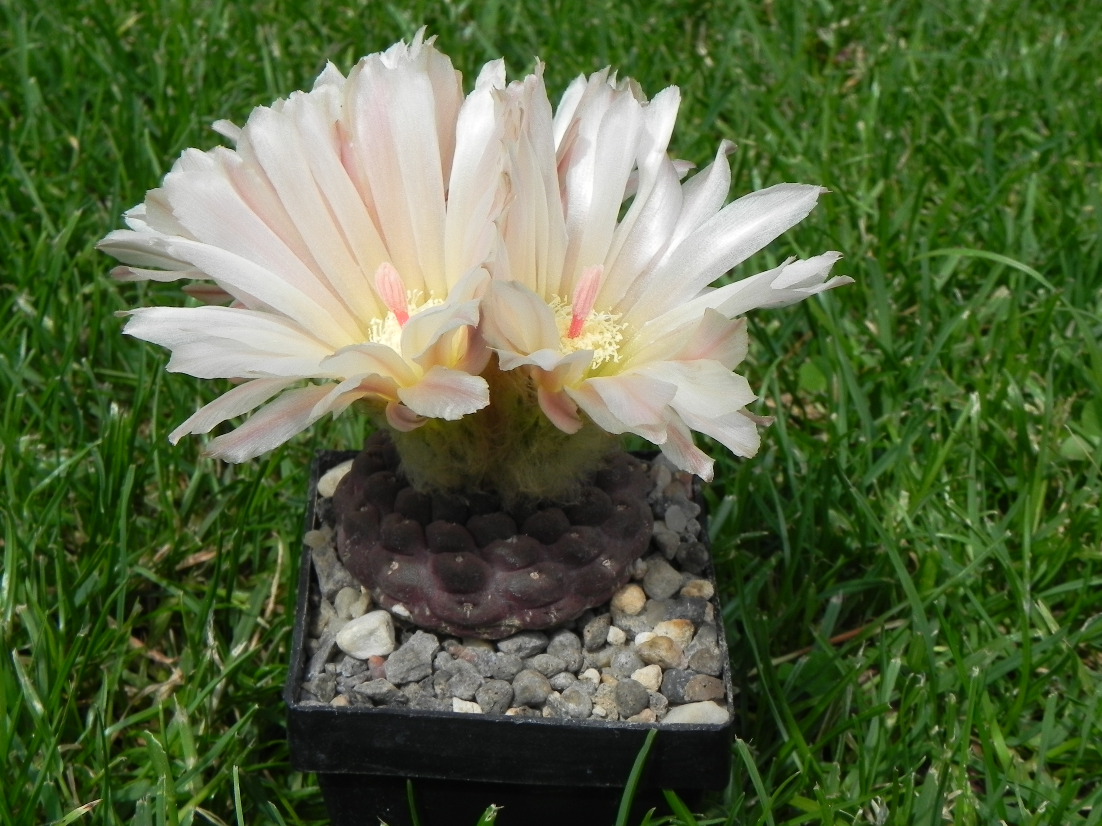 Photo of the cactus Eriosyce odieri subsp. glabrescens (F.Ritter) Katt., taken from a plant in cultur, with flowers.